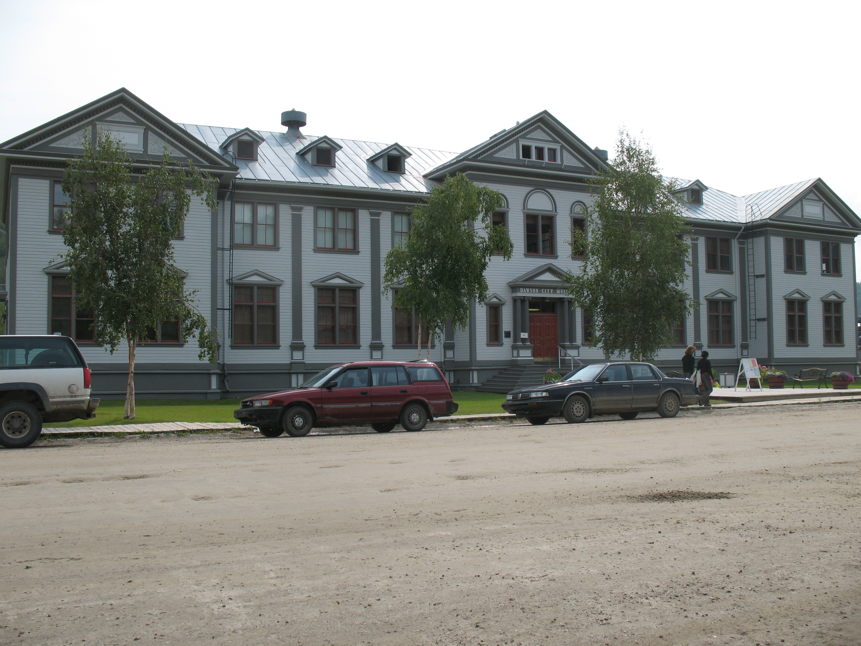 The Dawson City Museum, housed in the 1901 neo-classical Old Territorial Administration Building--a newly designated National Historic Site of Canada. Dawson, Yukon, Canada